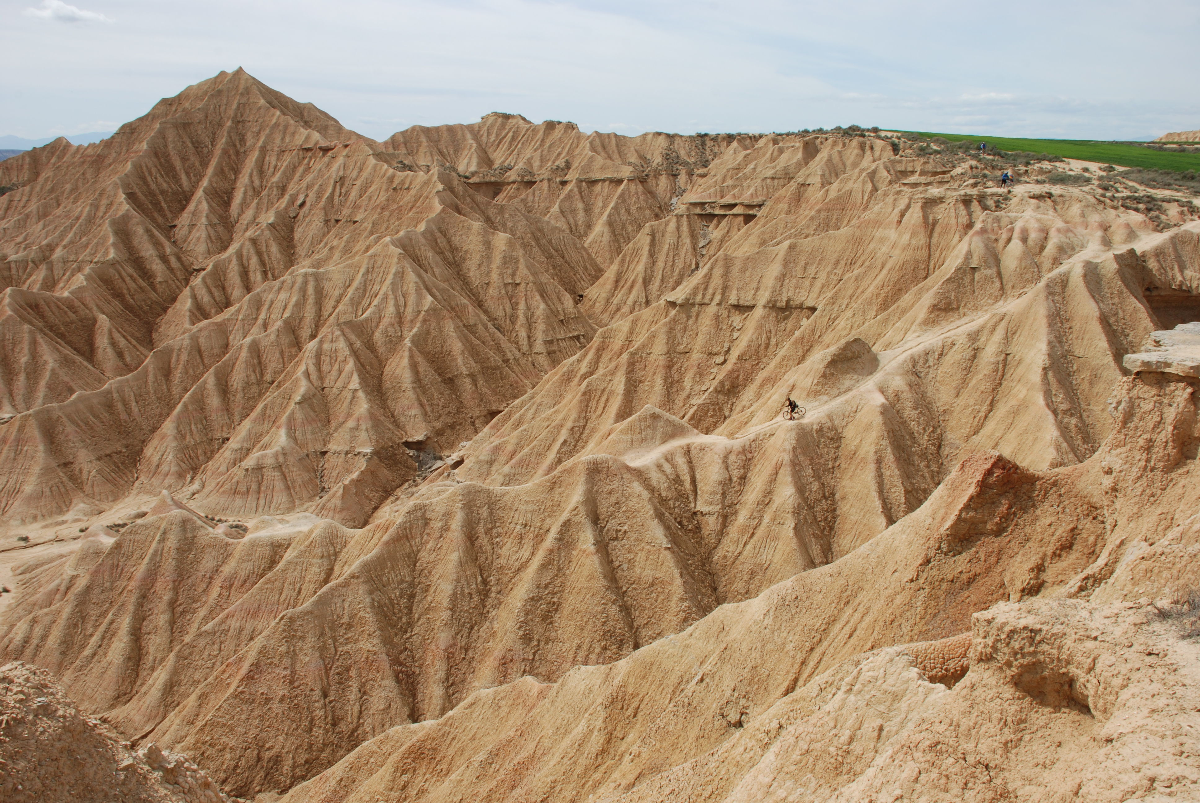 Downhill in mountain bike in Bardenas Reales, Navarra, Spain